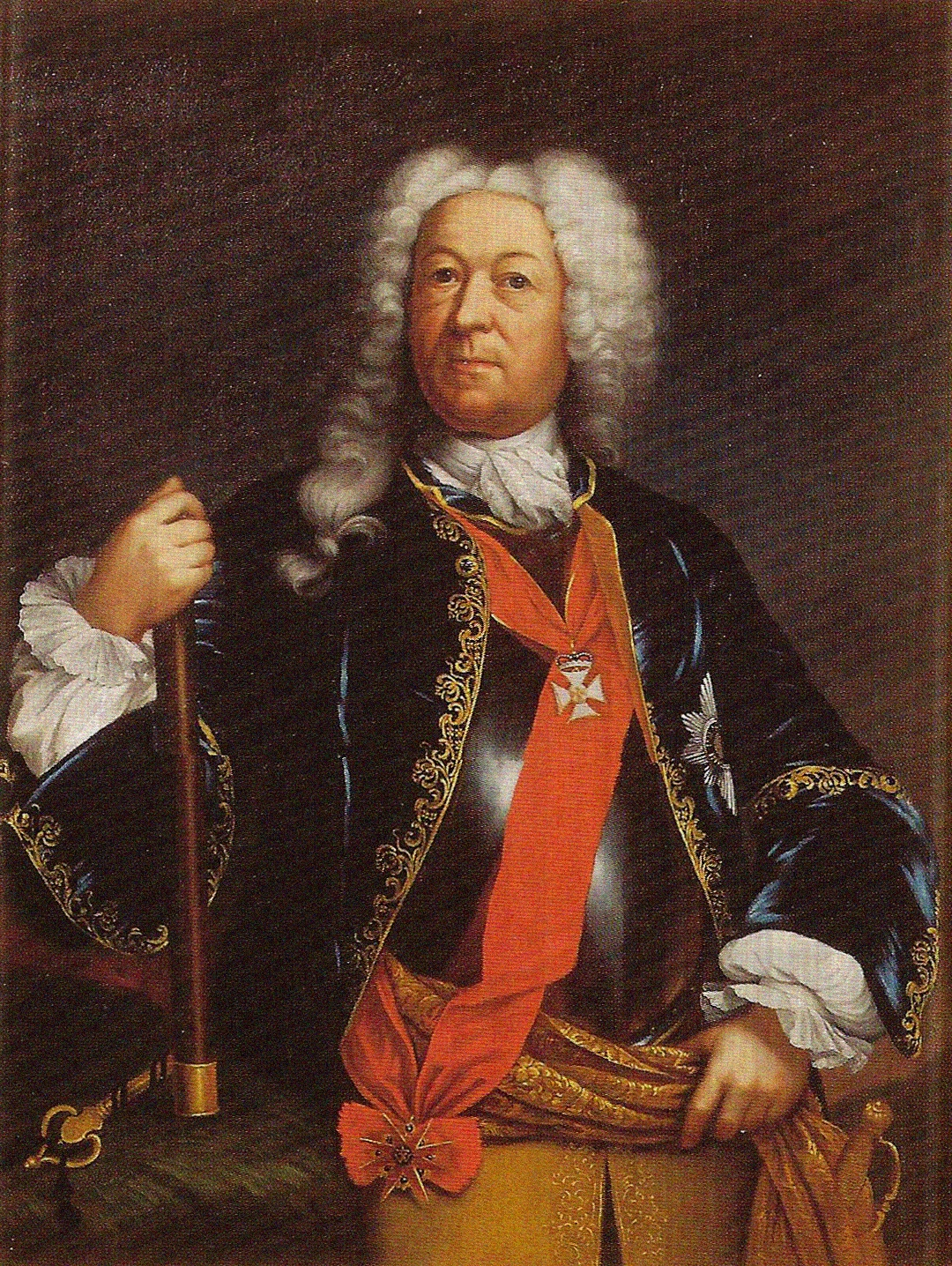 Portrait of Hieronymus von Erlach (1667-1748)